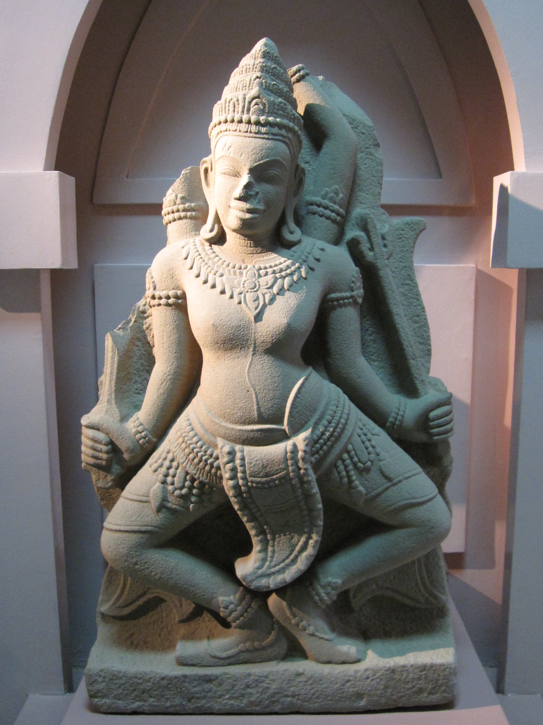 Shiva. Carved sandstone, later 12th century. Binh Dinh province, Central Vietnam. Decoration above lintel of Cham temple.